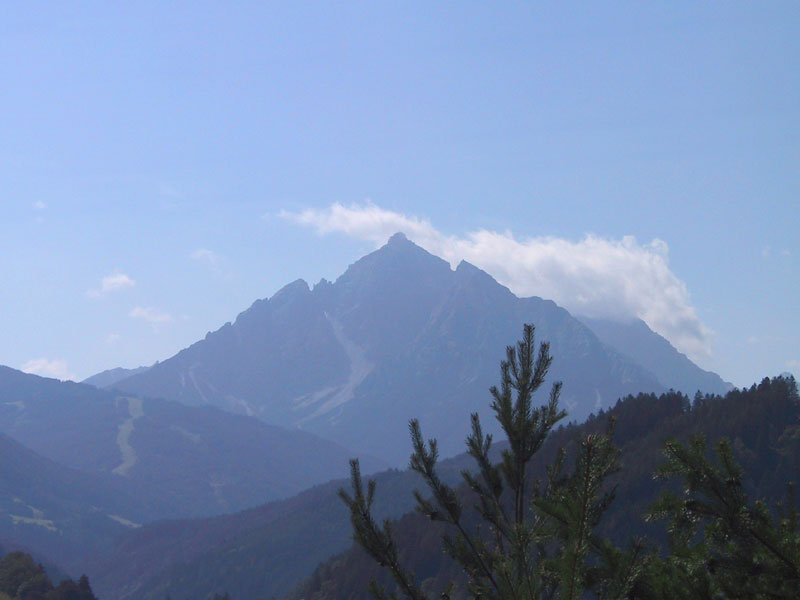 Serles from the North, Stubai Alps, Austria